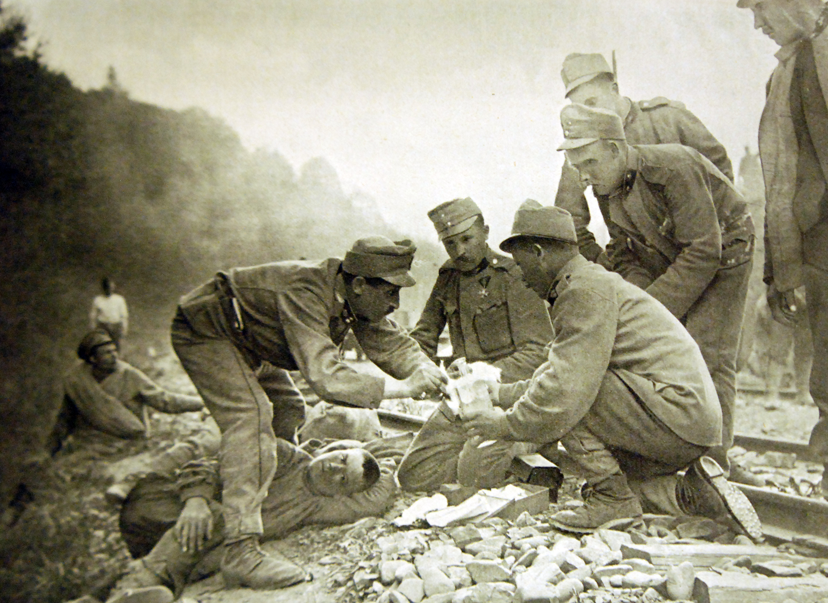 Lot-2642-3: WWI: Central Powers: Austrio-Hungarian. Original caption reads, “Caring For the Enemy.” From the album Austro-Hungarian Troops at War, 1916. Courtesy of the Library of Congress. (2017/03/17).